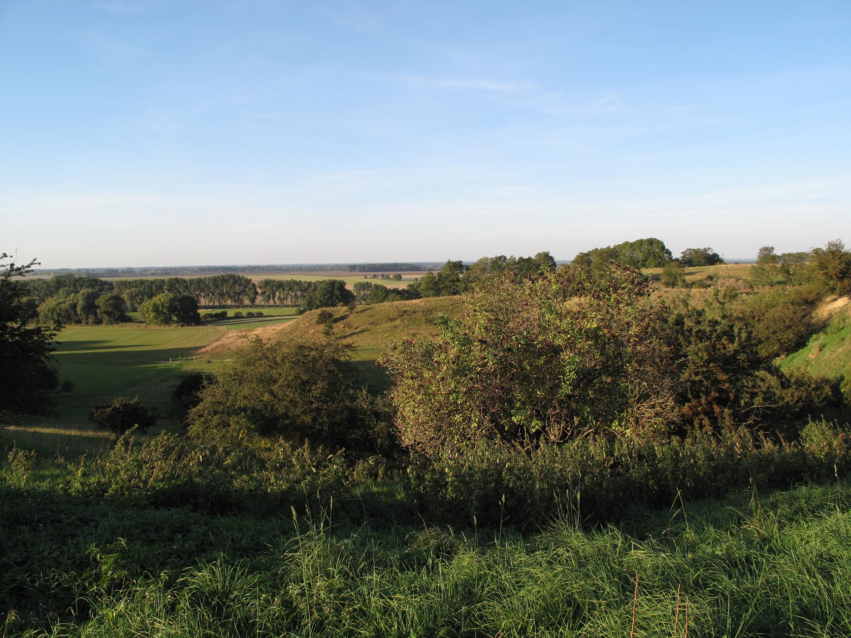 Oderbruch (literally "Oder swamp" in German) nearby Mallnow (part of Lebus).